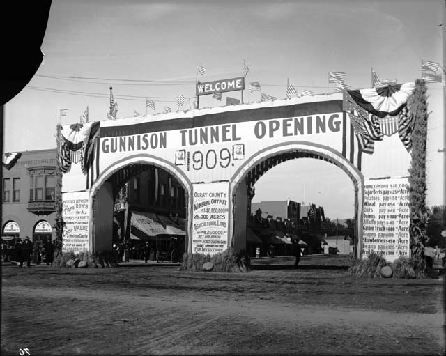 Gunnison Tunnel opening street display (Montrose, Colorado)